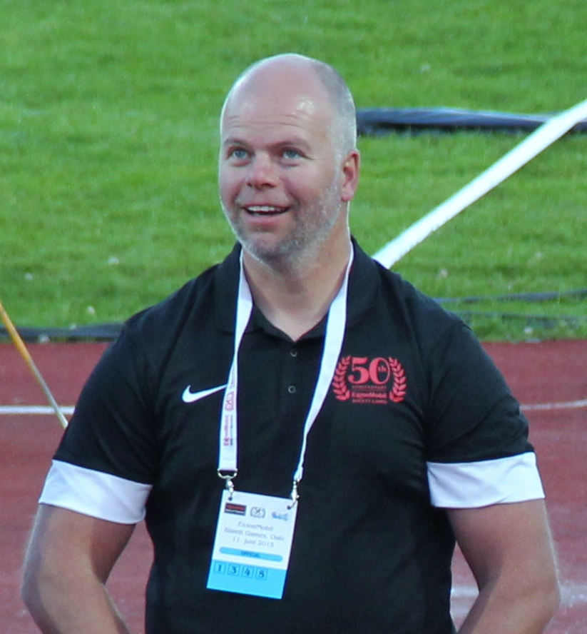 Åsmund Martinsen at the 2015 Bislett Games